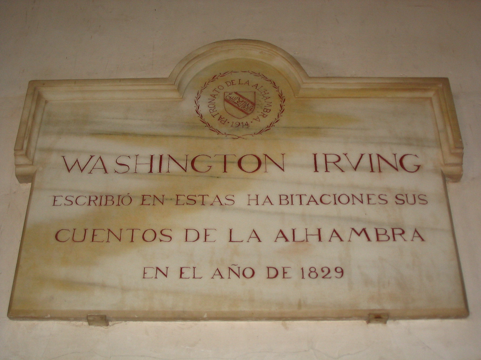 This placate is in La Alhambra, Granada (Spain). It says in